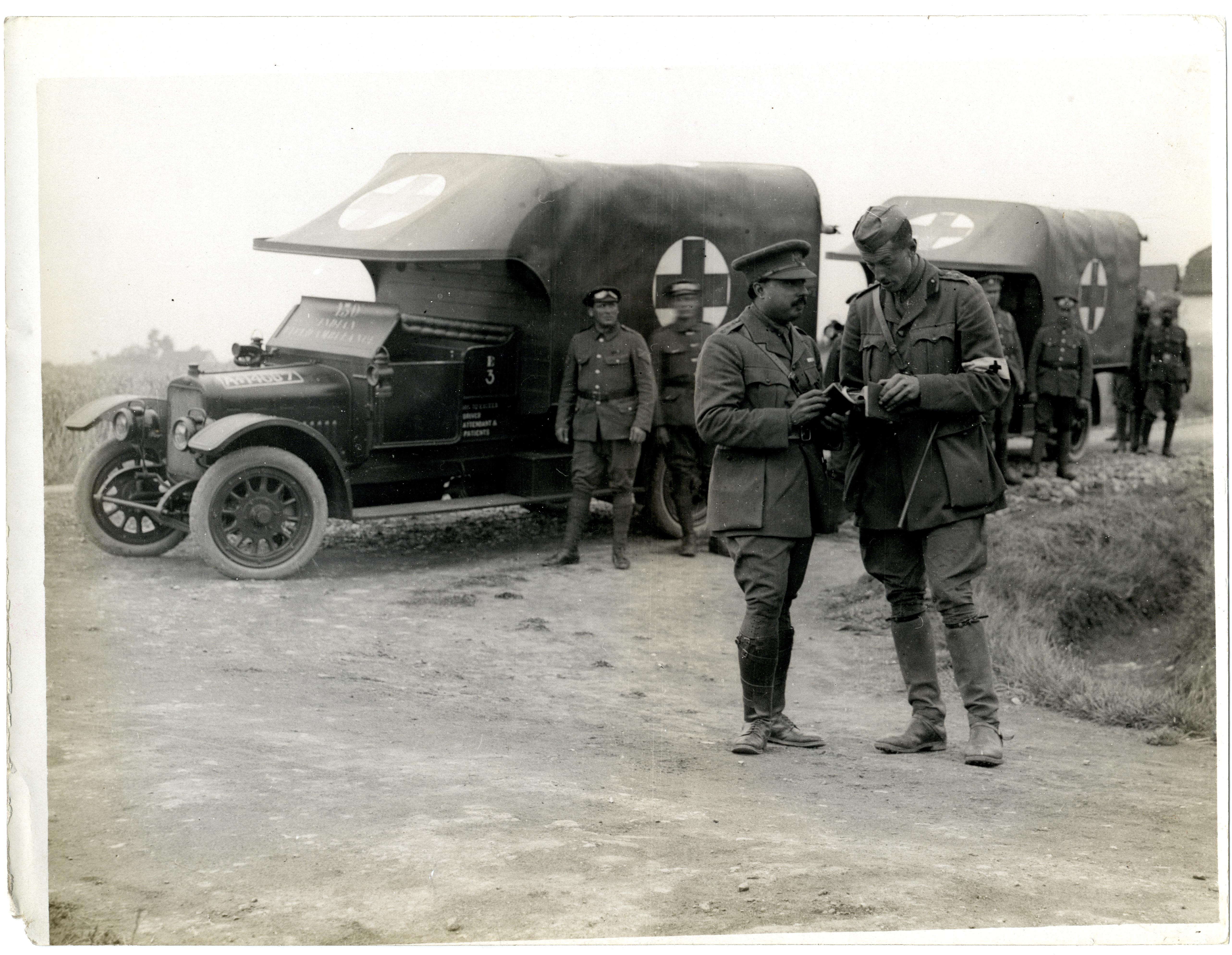 Reference: Photo 24/(219) From the Girdwood Collection held by the British Library. This image is part of the Europeana Collections 1914-1918 Date: 2 Aug 1915 See also: - View this at the British Library's site - Browse this collection on Europeana - and on Wikimedia Commons Please consider donating to the British Library.